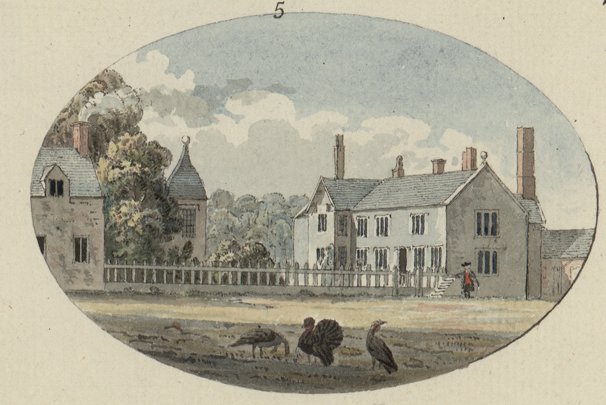 An image from a set of 8 extra-illustrated volumes of A tour in Wales by Thomas Pennant (1726-1798) that chronicle the three journeys he made through Wales between 1773 and 1776. These volumes are unique because they were compiled for Pennant's own library at Downing. This edition was produced in 1781. The volumes include a number of original drawings by Moses Griffiths, Ingleby and other well known artists of the period. Thomas Pennant (1726-1798)